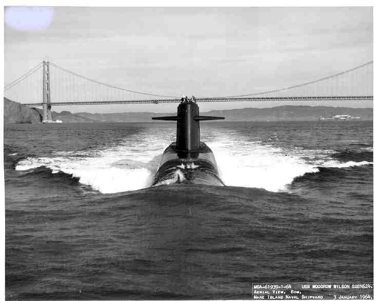 An aerial view of the USS Woodrow Wilson (SSBN 624) outbound in San Francisco Bay with the Golden Gate Bridge in background.